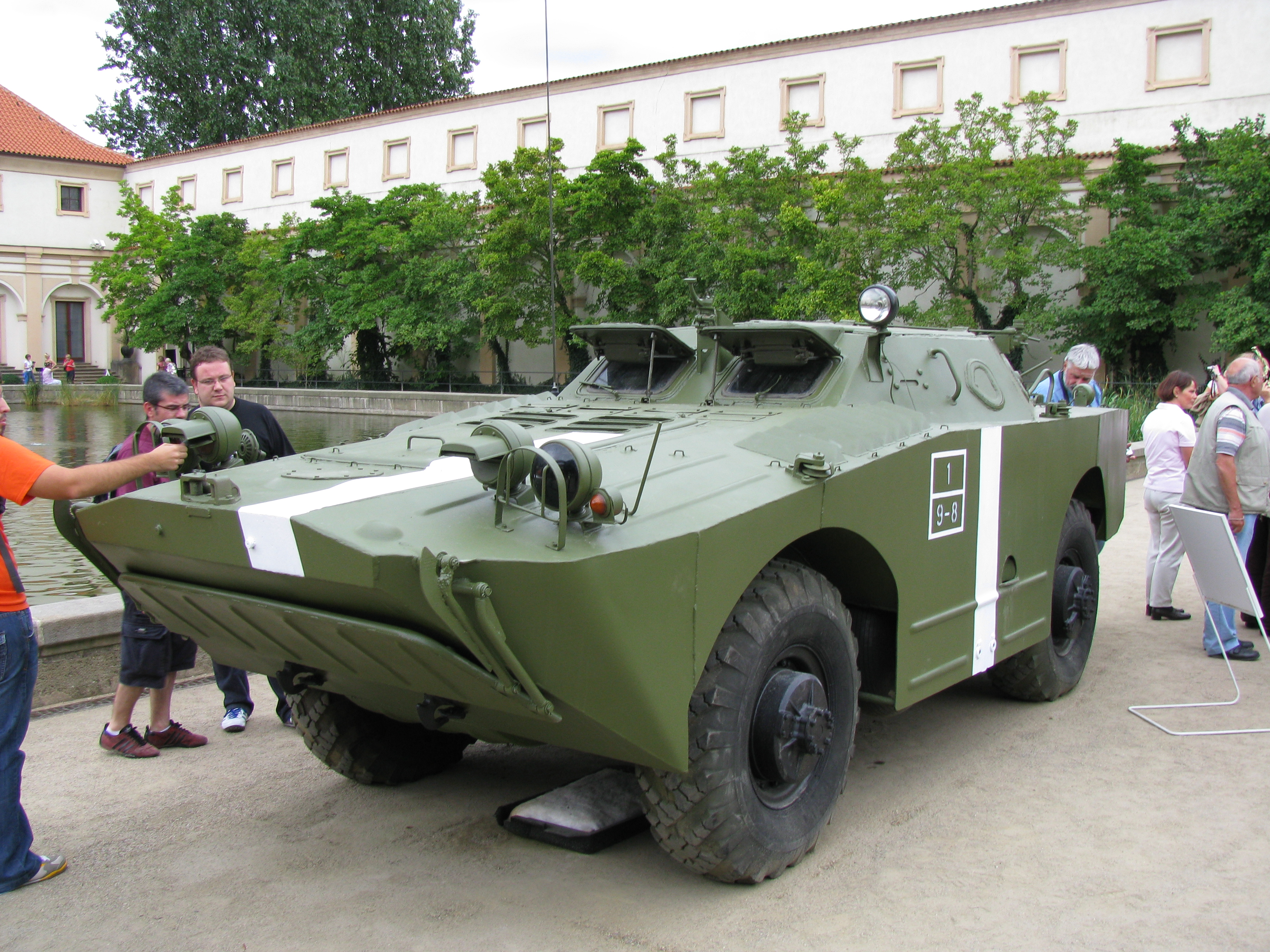 BRDM-1 in Wallenstein Garden, Prague.